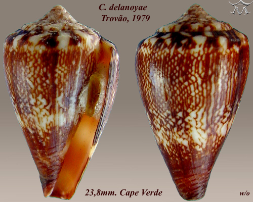 Conus delanoyae3